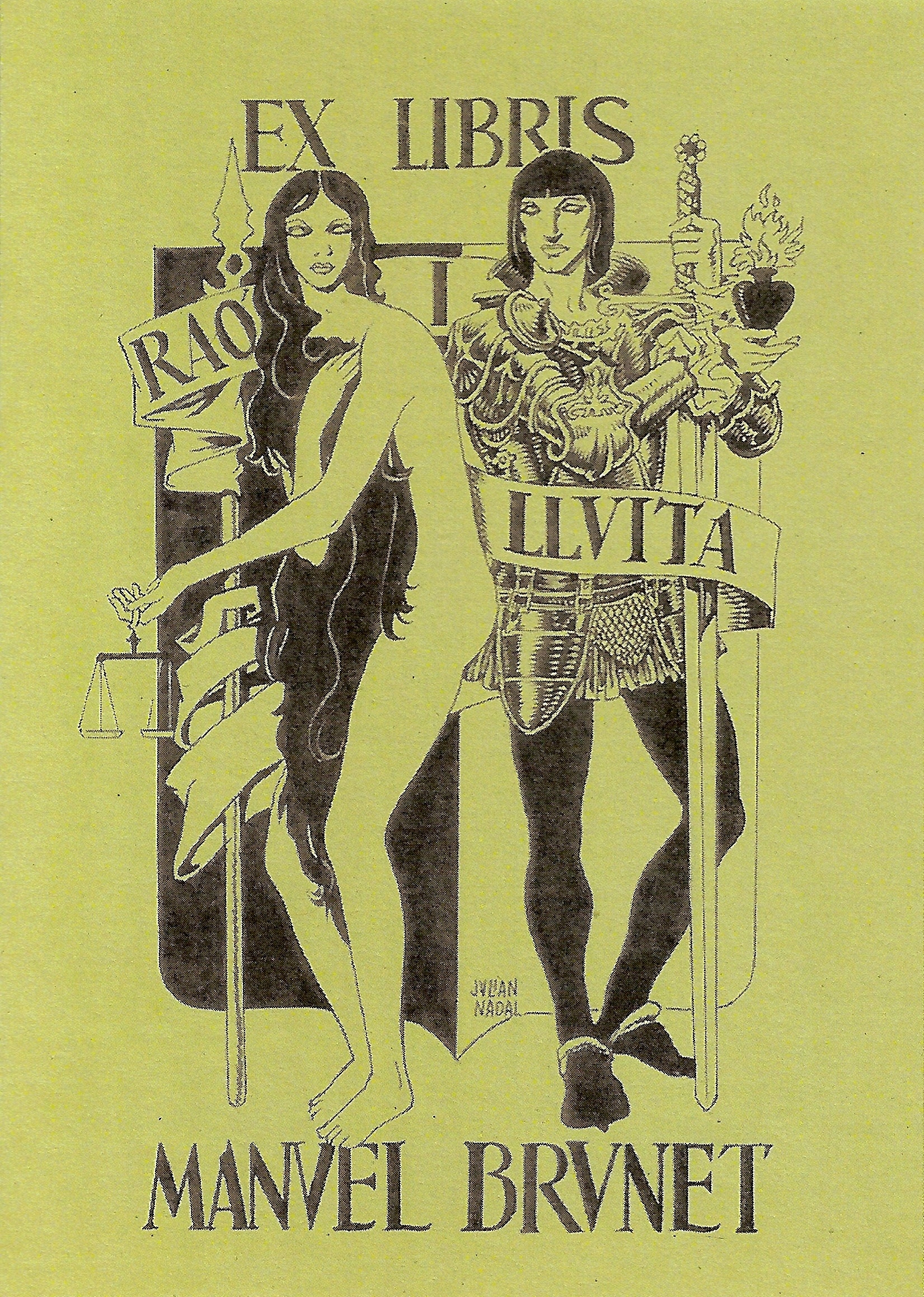 Ex Libris of Manuel Brunet (catalan writer)